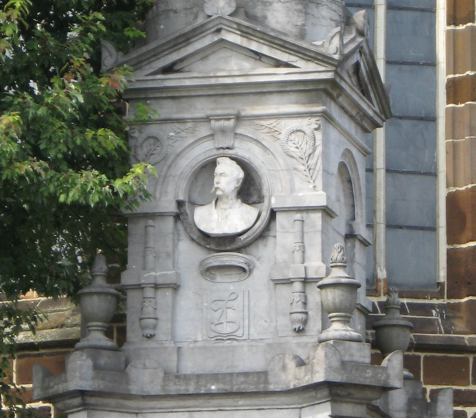 Bust of Eugène de Zerezo de Tejada (1824-1887) in Veerle, Laakdal, Antwerp, Belgium